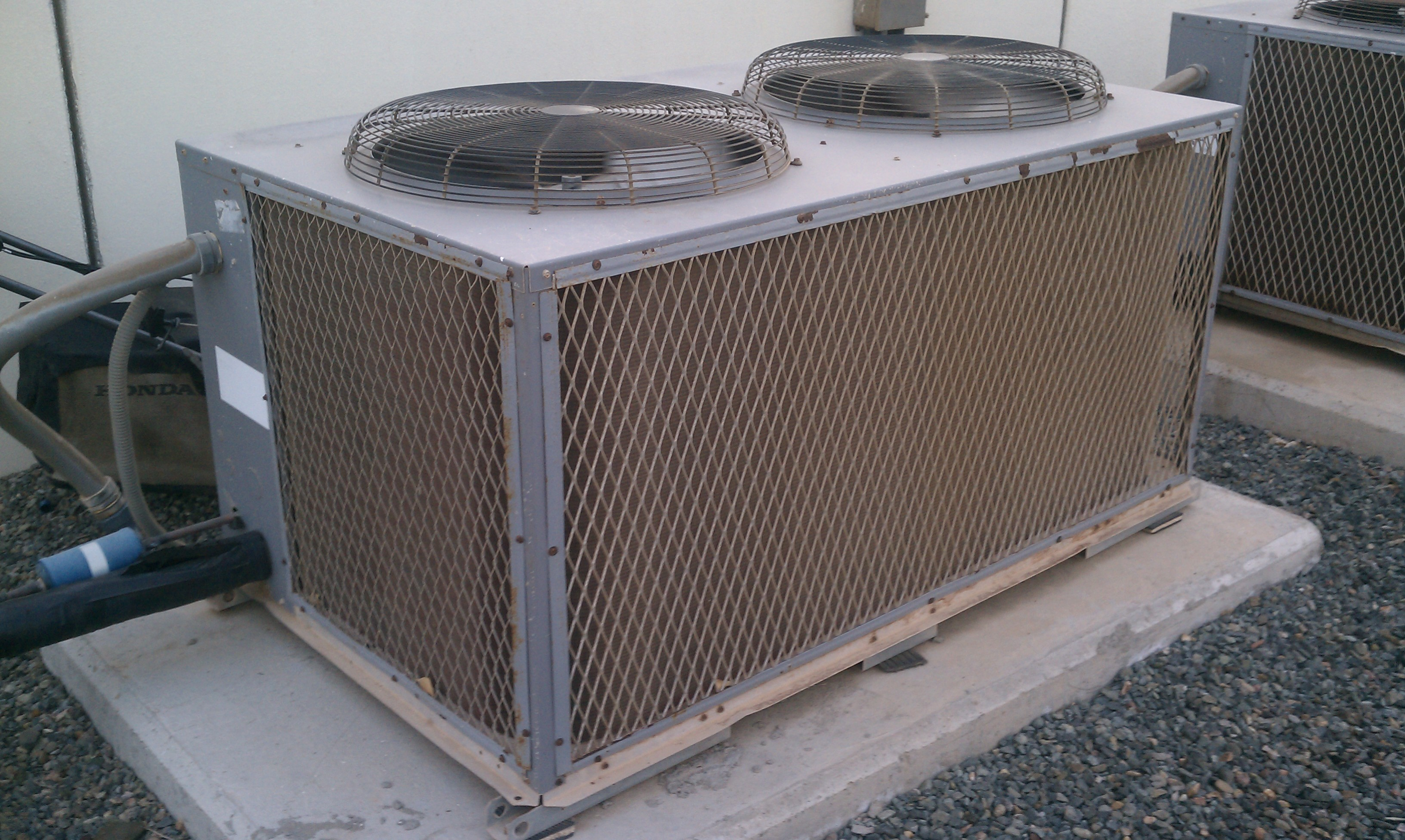 An air conditioning unit on the KAUST residential campus